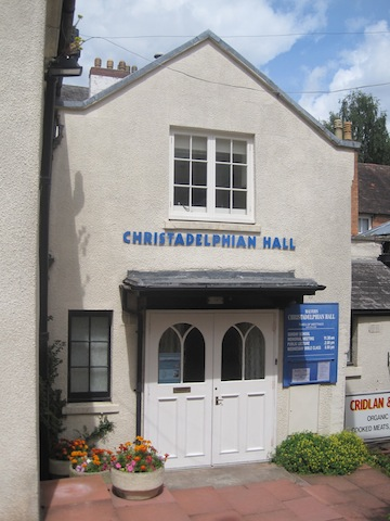 Photo: Christadelphian Hall, Malvern, England